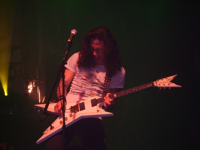 Matthew Heafy of US-american thrash metal band Trivium doing a Dime Squeal. picture made by Jenna MacPhee